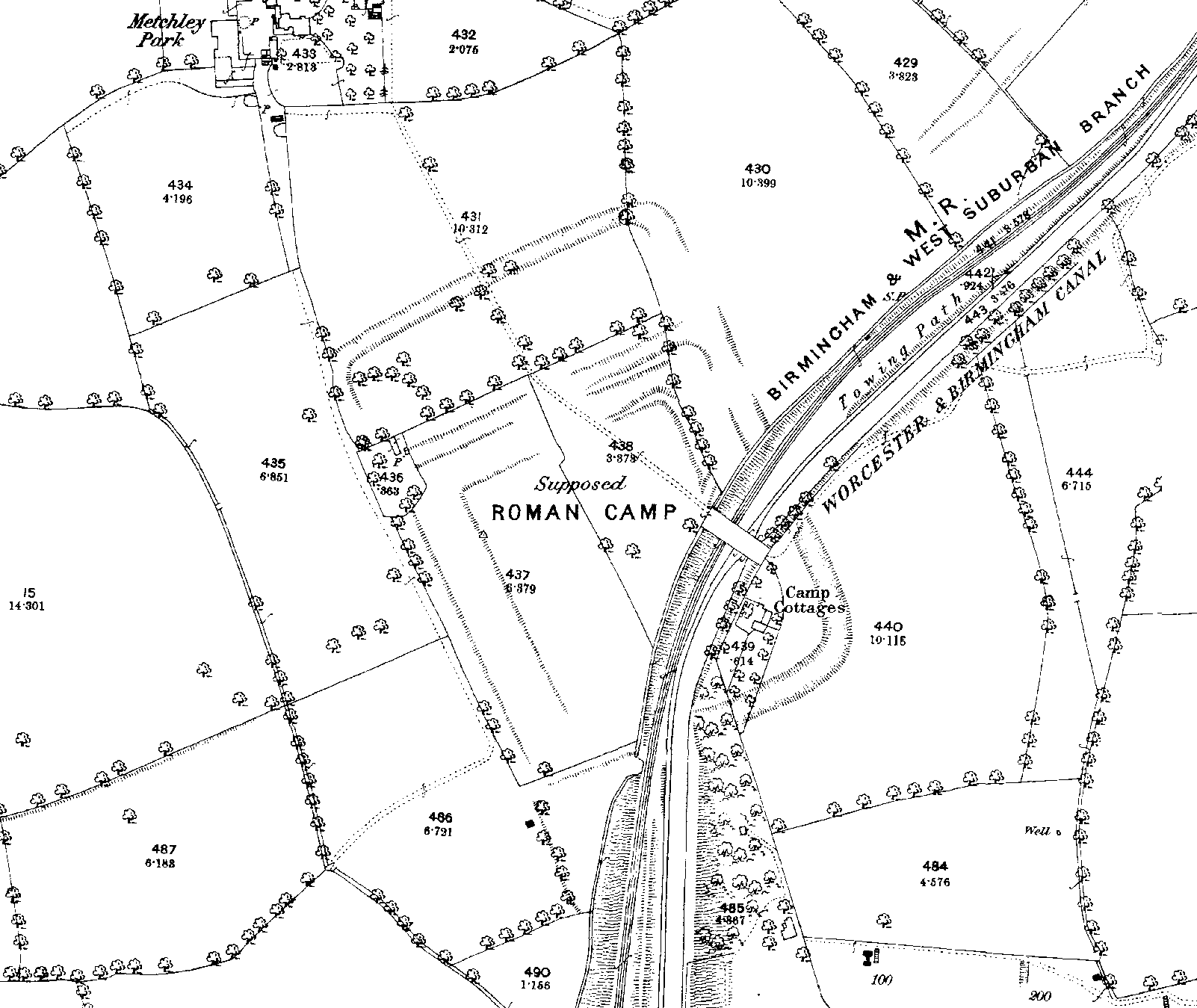 Metchley Fort in Edgbaston, Birmingham, as it appeared on the 1890 1:2,500 Ordnance Survey map of Warwickshire. Source